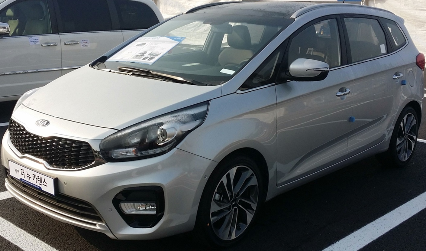 Kia The New Carens